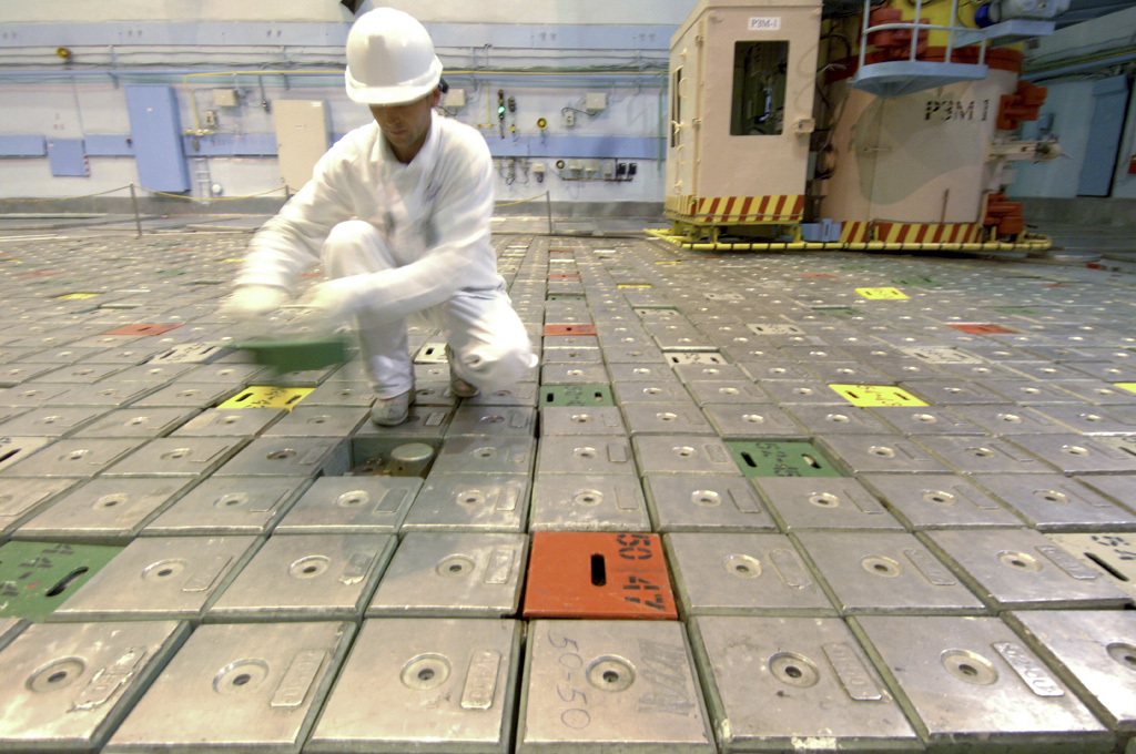 “Kursk Nuclear Power Plant”. The central hall of a power-generating unit at Kursk Nuclear Power Plant in the town of Kurchatov.